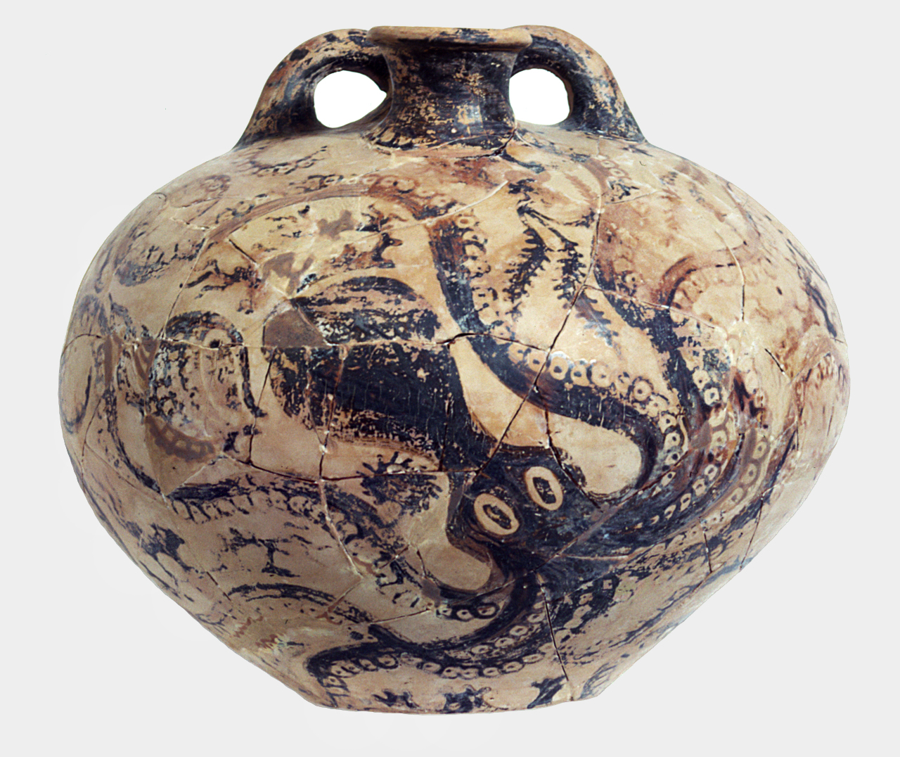 Late Minoan Stirrup Jar from Gournia/Crete